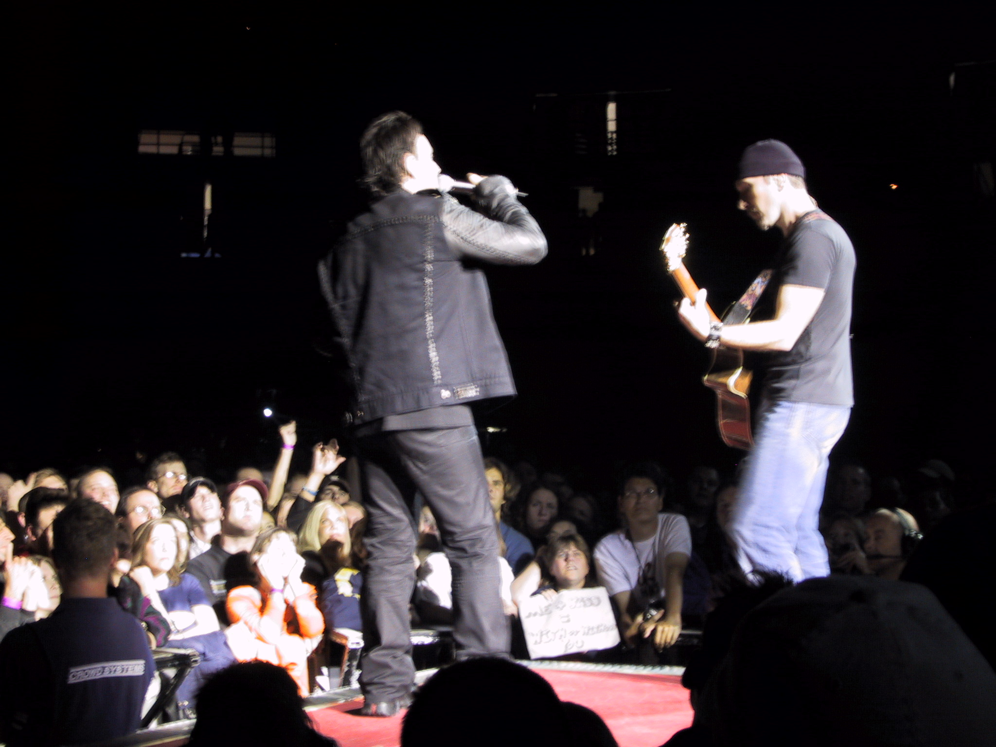 U2 in Kansas City, 2001. Bono and the Edge.